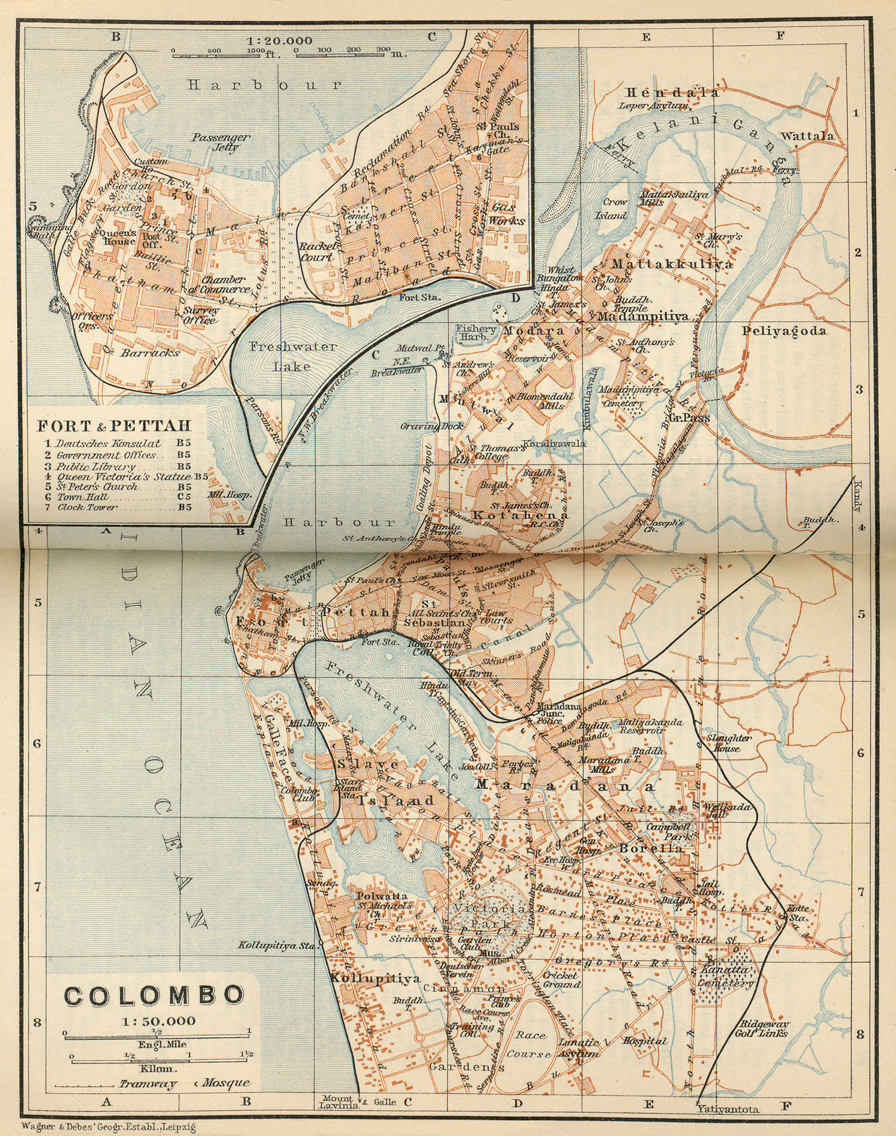 Map showing Tramways and Mosques in Colombo, Ceylon - 1914